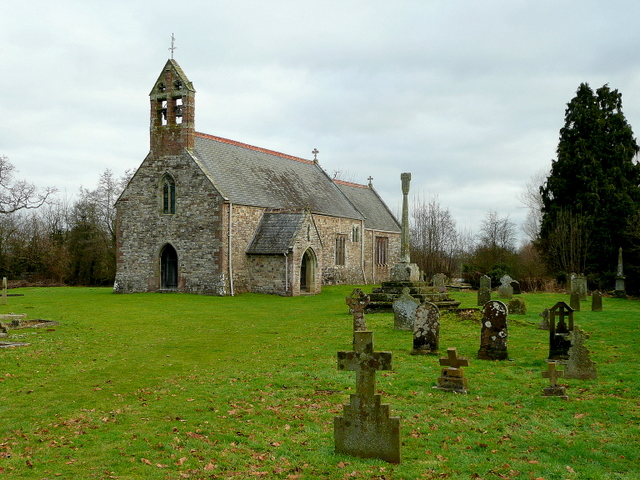 St. Mary's church, Llanfair Kilgeddin, near to Llanvihangel Gobion, Monmouthshire/Sir Fynwy, Wales. A tiny isolated building on the Usk floodplain.